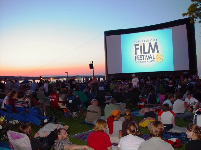 Inflatable movie screen at the Traverse City Film Festival